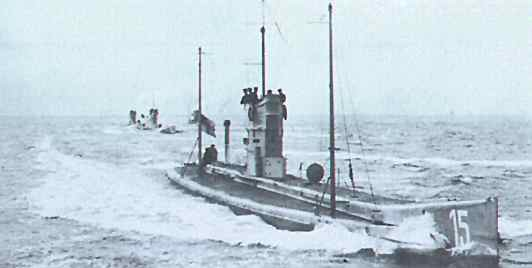 First lost U-boat, U-15 (Kptlt. Pohle) was rammed and sunk by the British Der erste Verlust im Weltkrieg, U-15 (Kptlt. Pohle) wurde gerammt und versenkt von den Briten